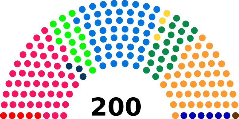 Seats diagramme of Swiss National Council (1967)